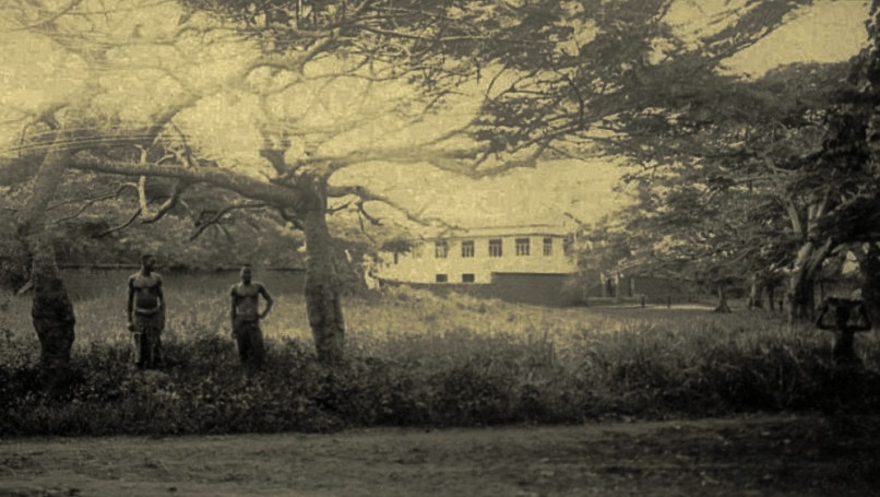 Photo taken in 1932 showing in the background the Portuguese fort of São João Baptista de Ajudá.